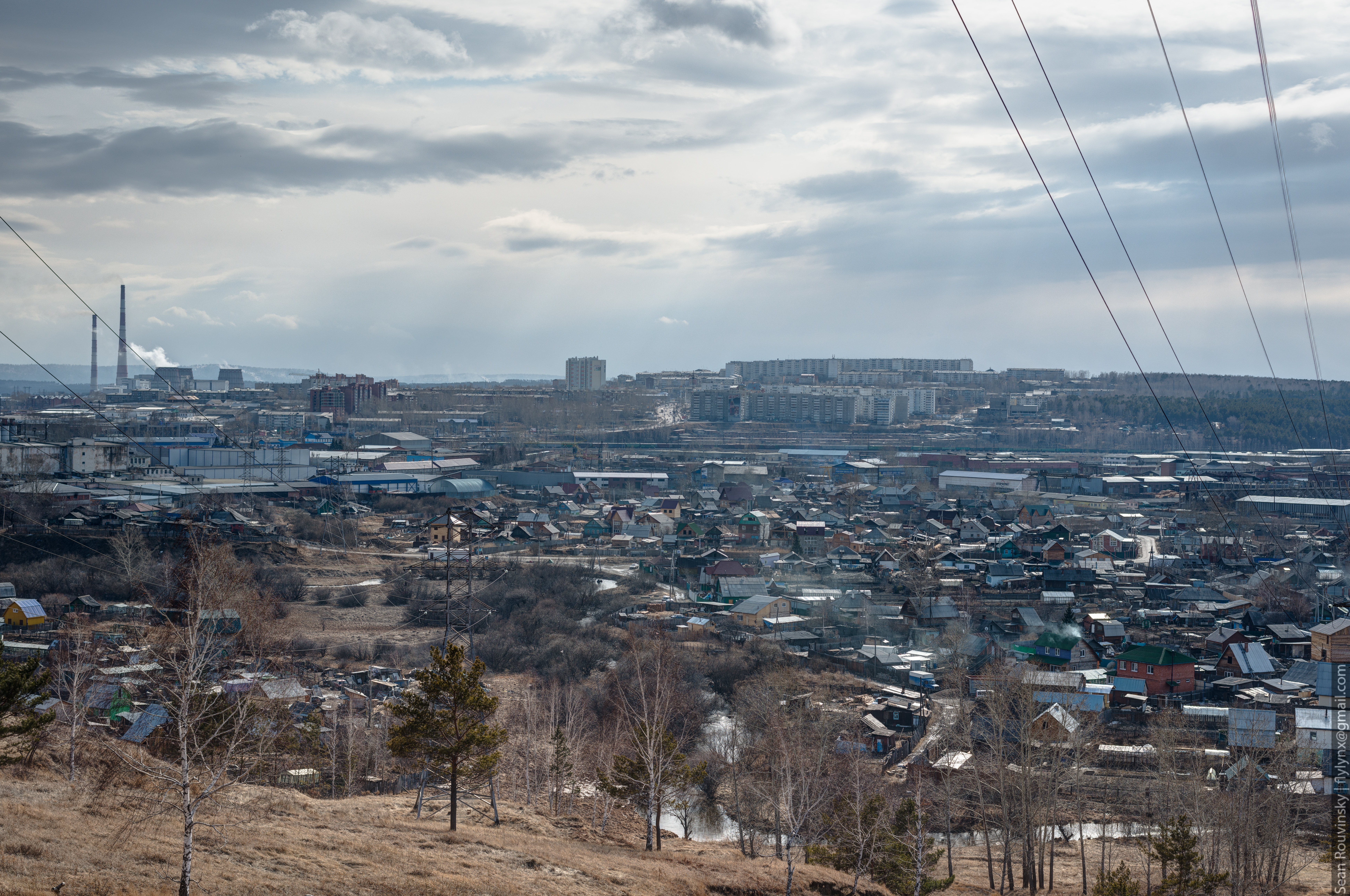 An industrial panorama in Irkutsk, Russia.